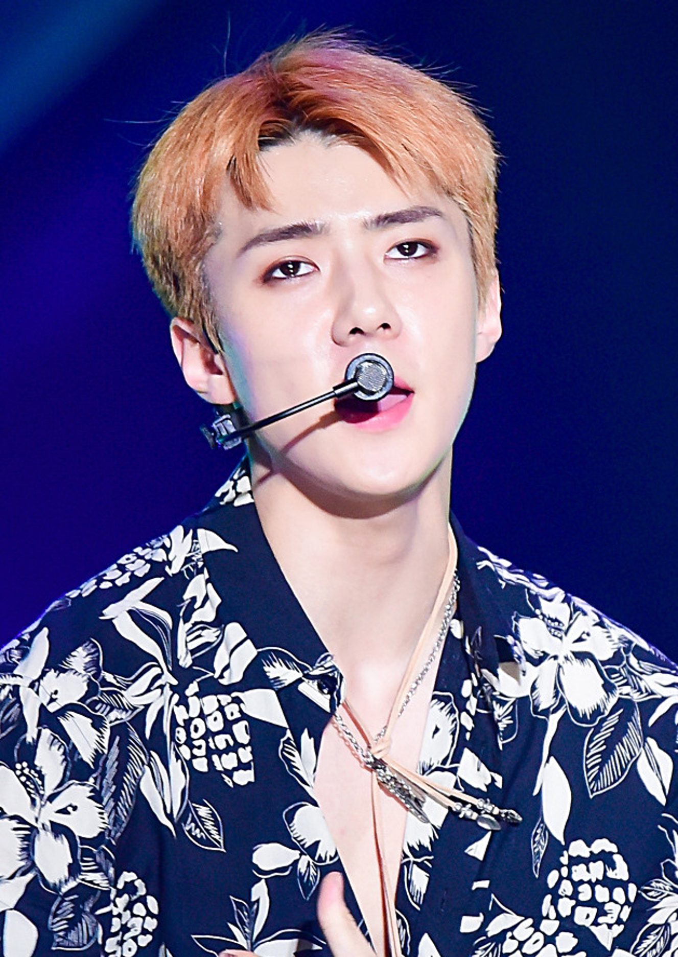 Oh Se-hun at Show! Music Core on July 24, 2017.